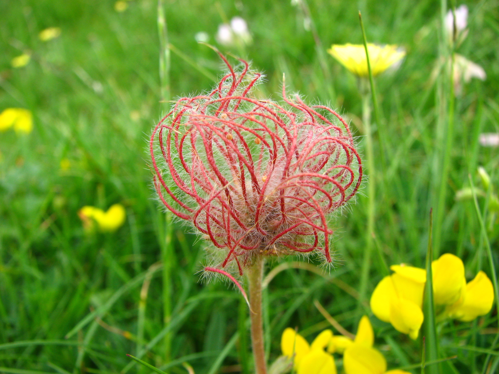 Geum montanum